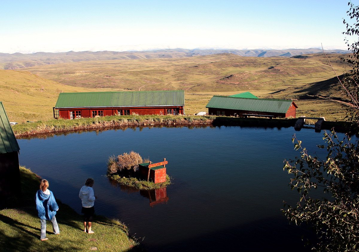 Tiffindell summer view